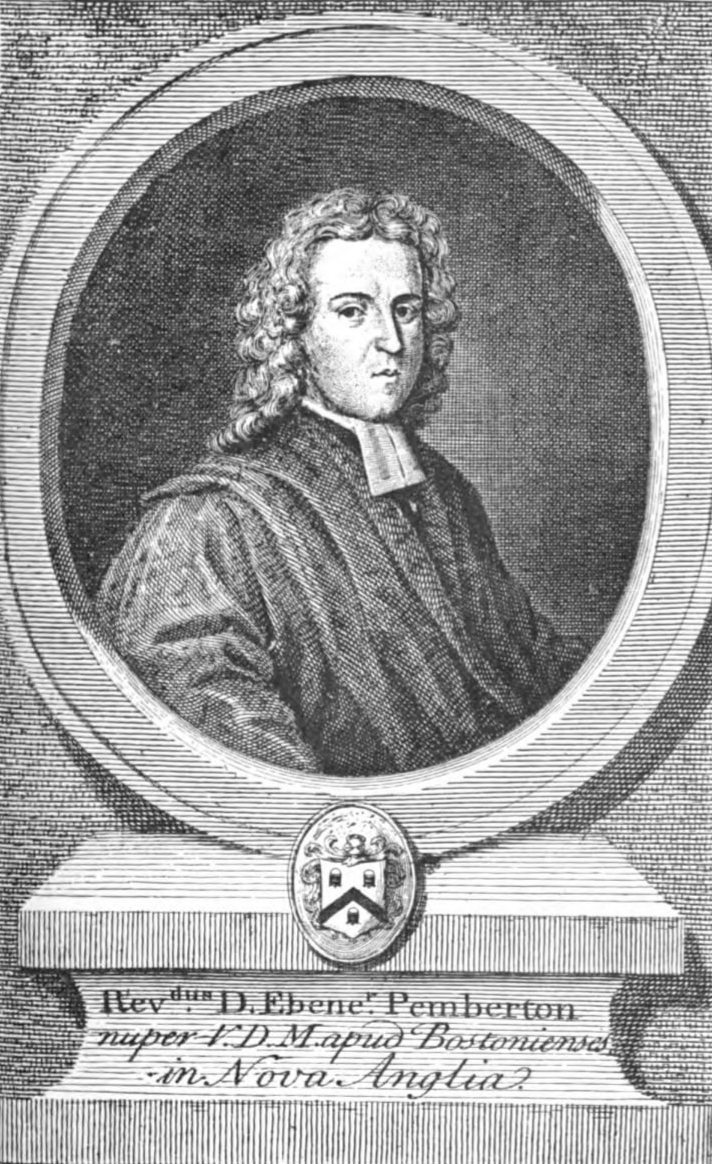 A copper engraving of Pemberton from Sermons and Discourses on Several Occasions, a collection of his works published in 1727.